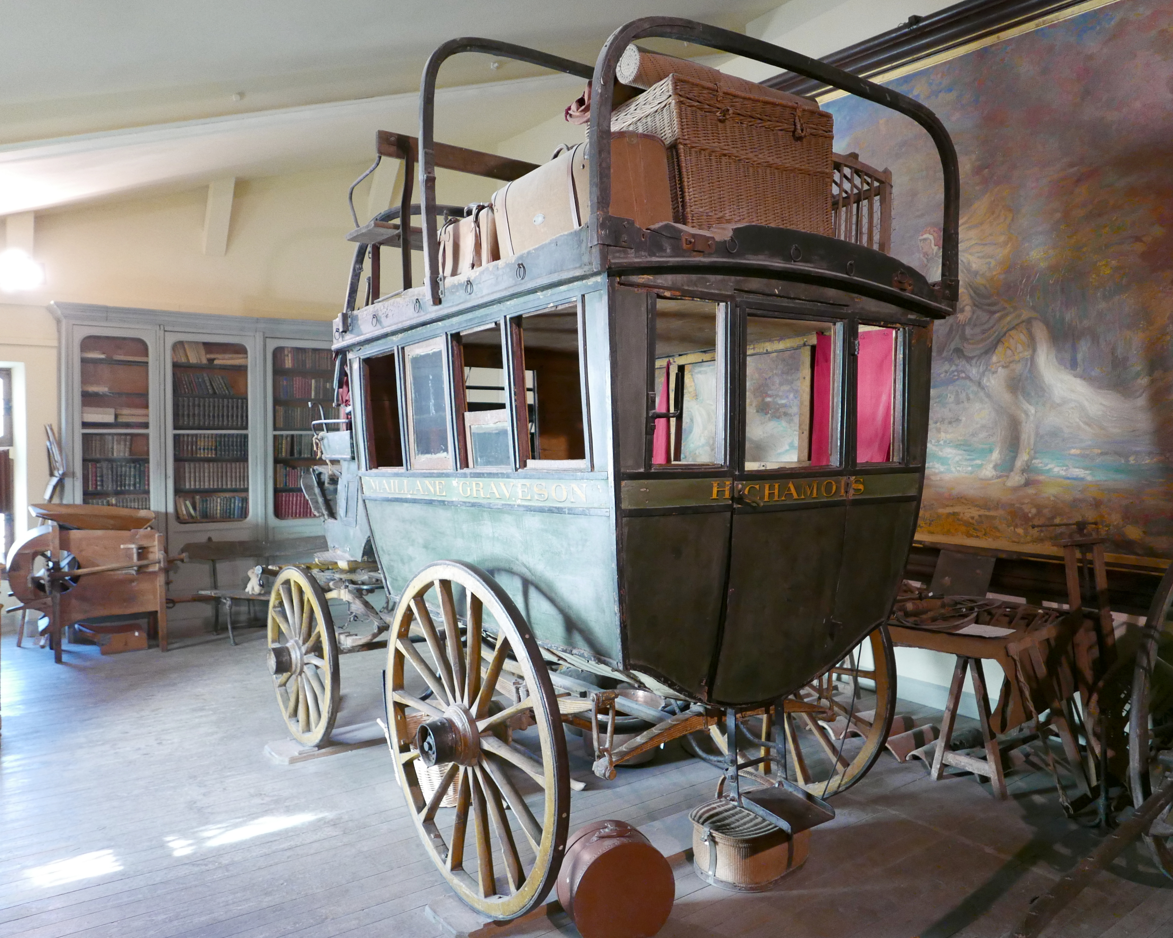 Avignon (Vaucluse, Provence, France), Roure palace, the Maillane-Graveson "patache" (small stagecoach) regularly used by Frederic Mistral.